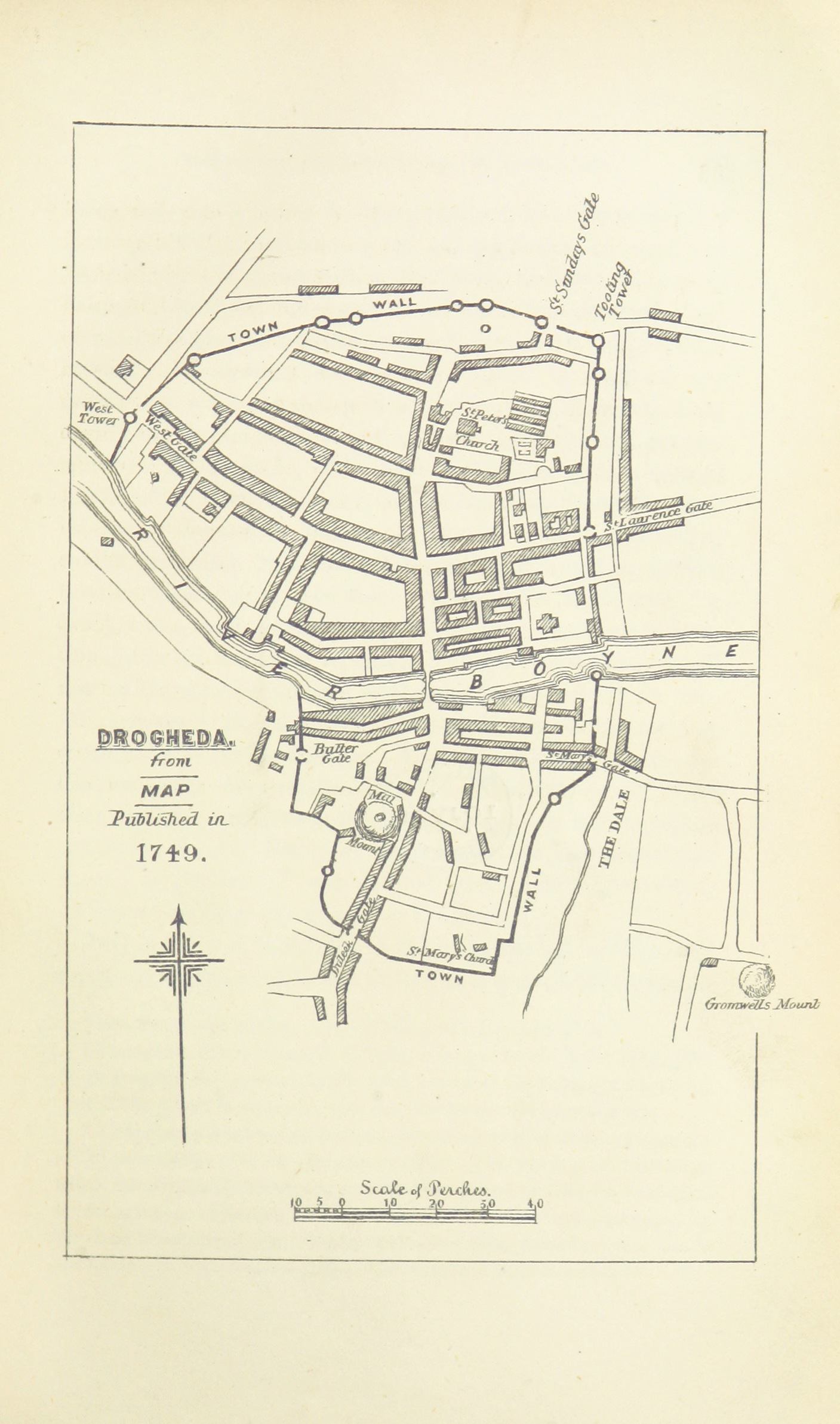 View this map on the BL Georeferencer service. Image taken from: Title: "Cromwell in Ireland, a history of Cromwell's Irish Campaign ... with map, plans and illustrations" Author: MURPHY, Denis. Shelfmark: "British Library HMNTS 9509.bb.8." Page: 123 Place of Publishing: Dublin Date of Publishing: 1883 Publisher: Gill and Son Issuance: monographic Identifier: 002588807 Explore: Find this item in the British Library catalogue, 'Explore'. Download the PDF for this book (volume: 0) Image found on book scan 123 (NB not necessarily a page number) Download the OCR-derived text for this volume: (plain text) or (json) Click here to see all the illustrations in this book and click here to browse other illustrations published in books in the same year. Order a higher quality version from here.